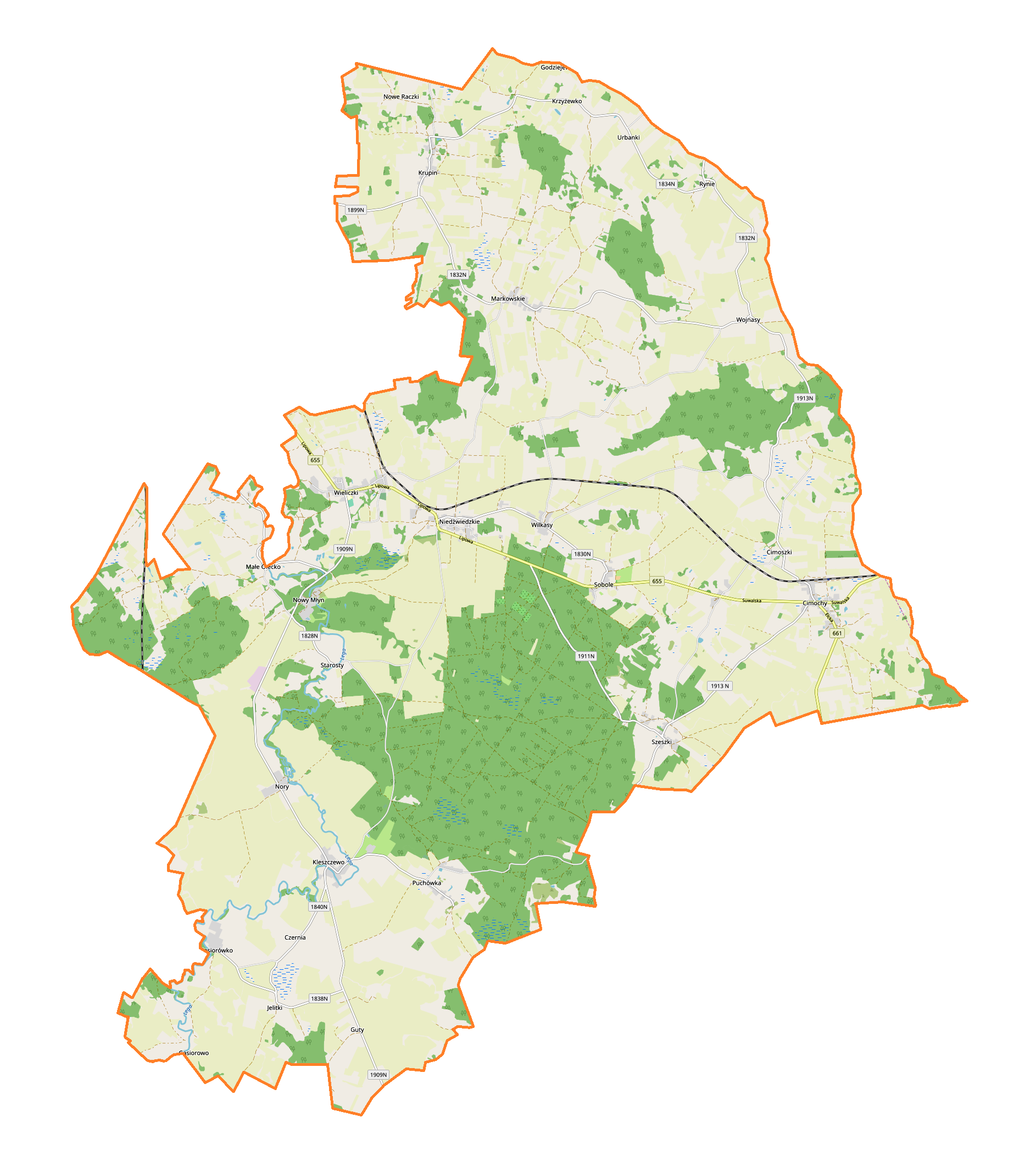 Location map